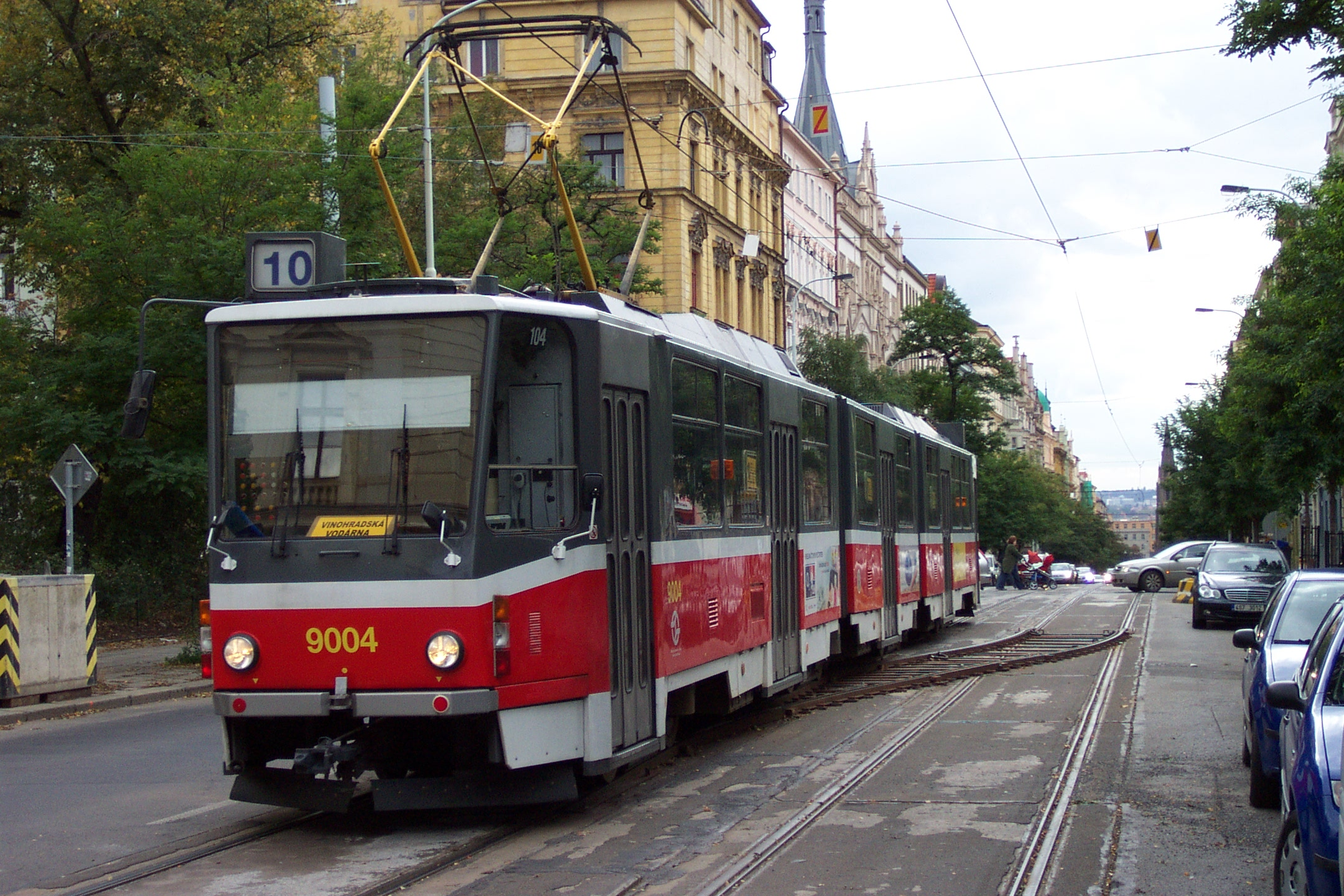 Tram mobile connection Californien, Prague-Vinohrady, CZ